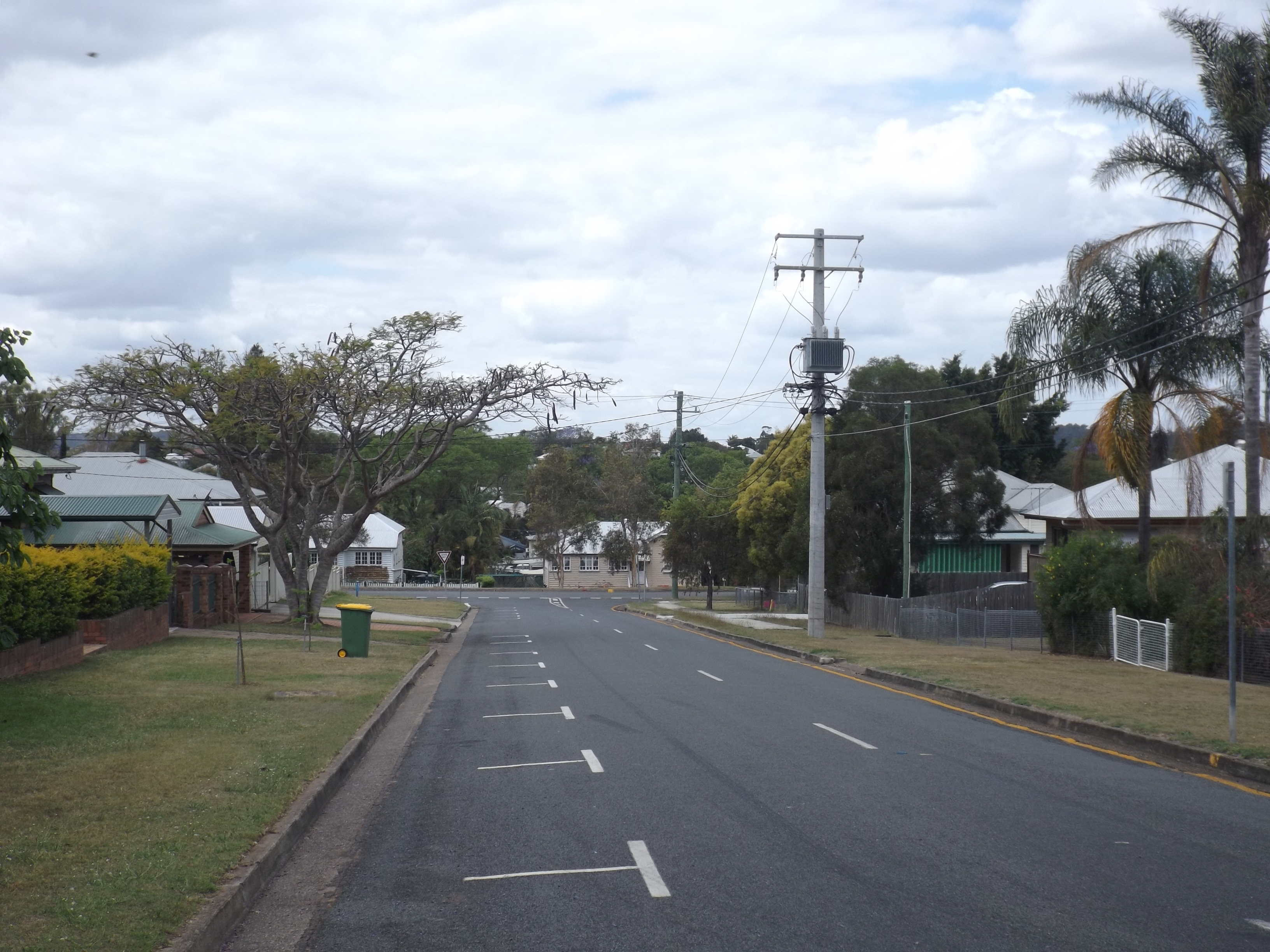 Photo of Rockton Street in Newtown, Ipswich, Queensland, Australia.